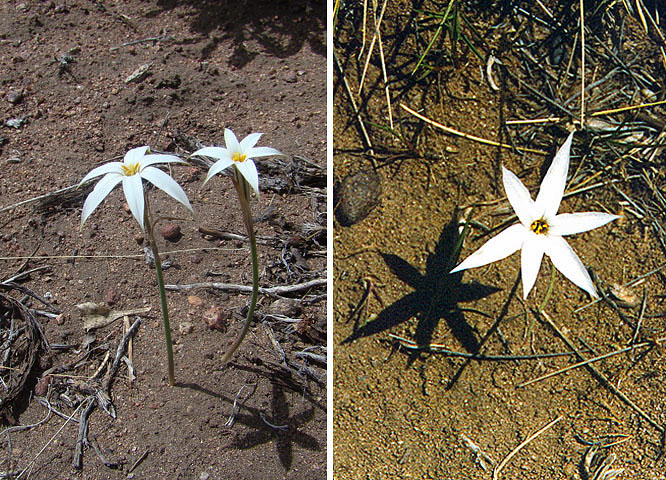 On the steppes of Patagonian Argentina it is called Estrellita, the 'little star'. In context at